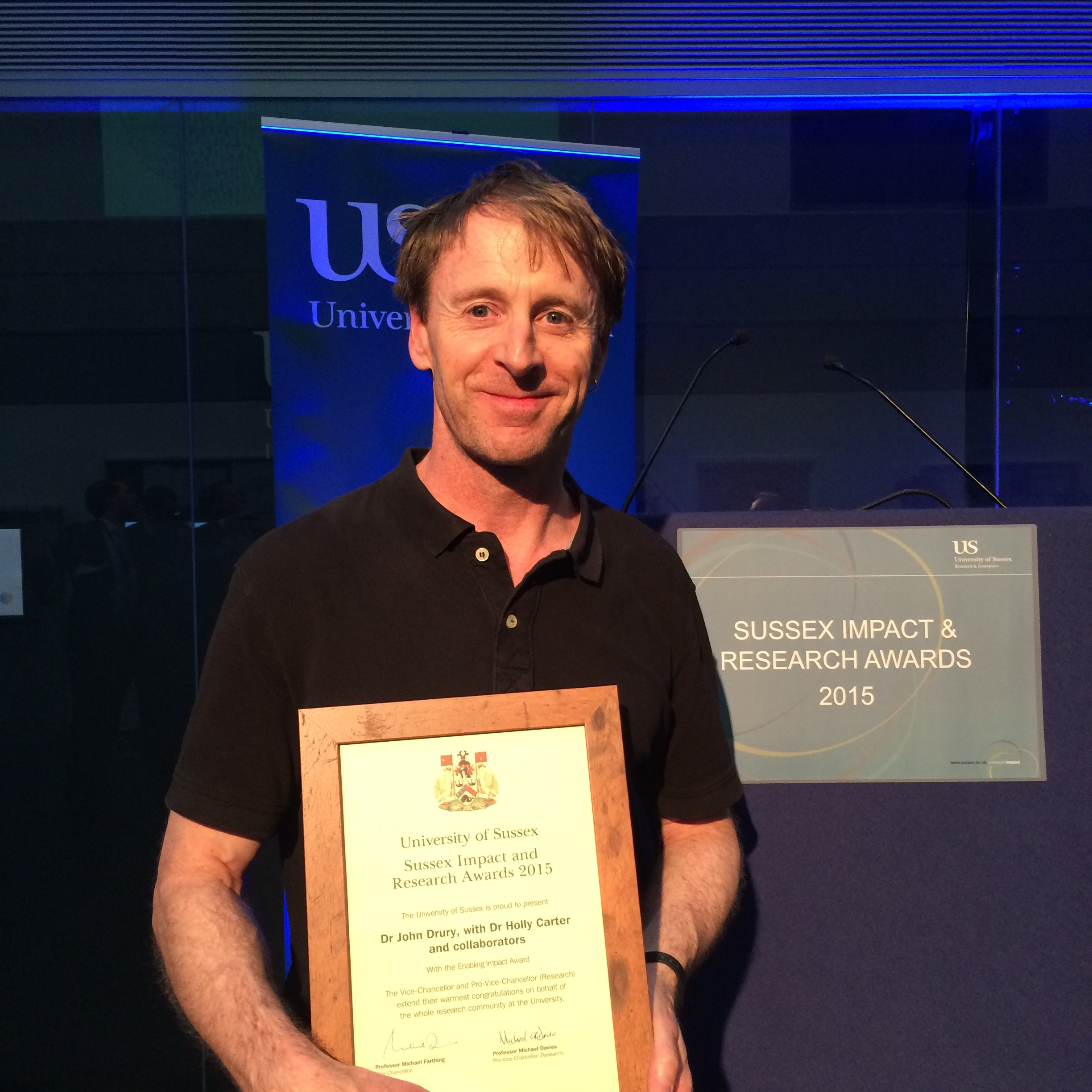 John Drury won the Sussex Impact Award for his research on crowd behaviour in emergencies.